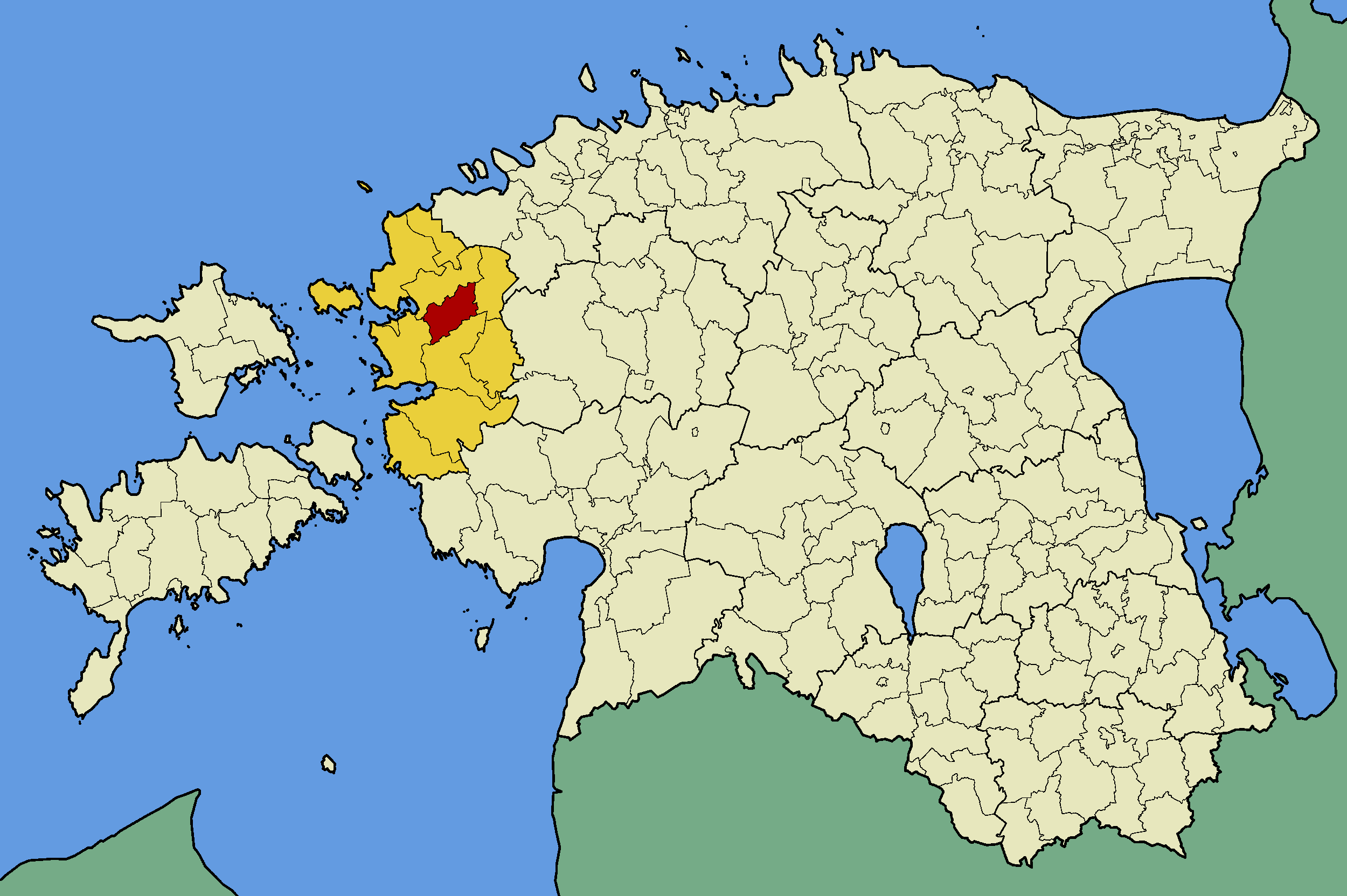 Map of Estonia with borders of municipalities (parishes). Lääne county and Taebla municipality emphasized.